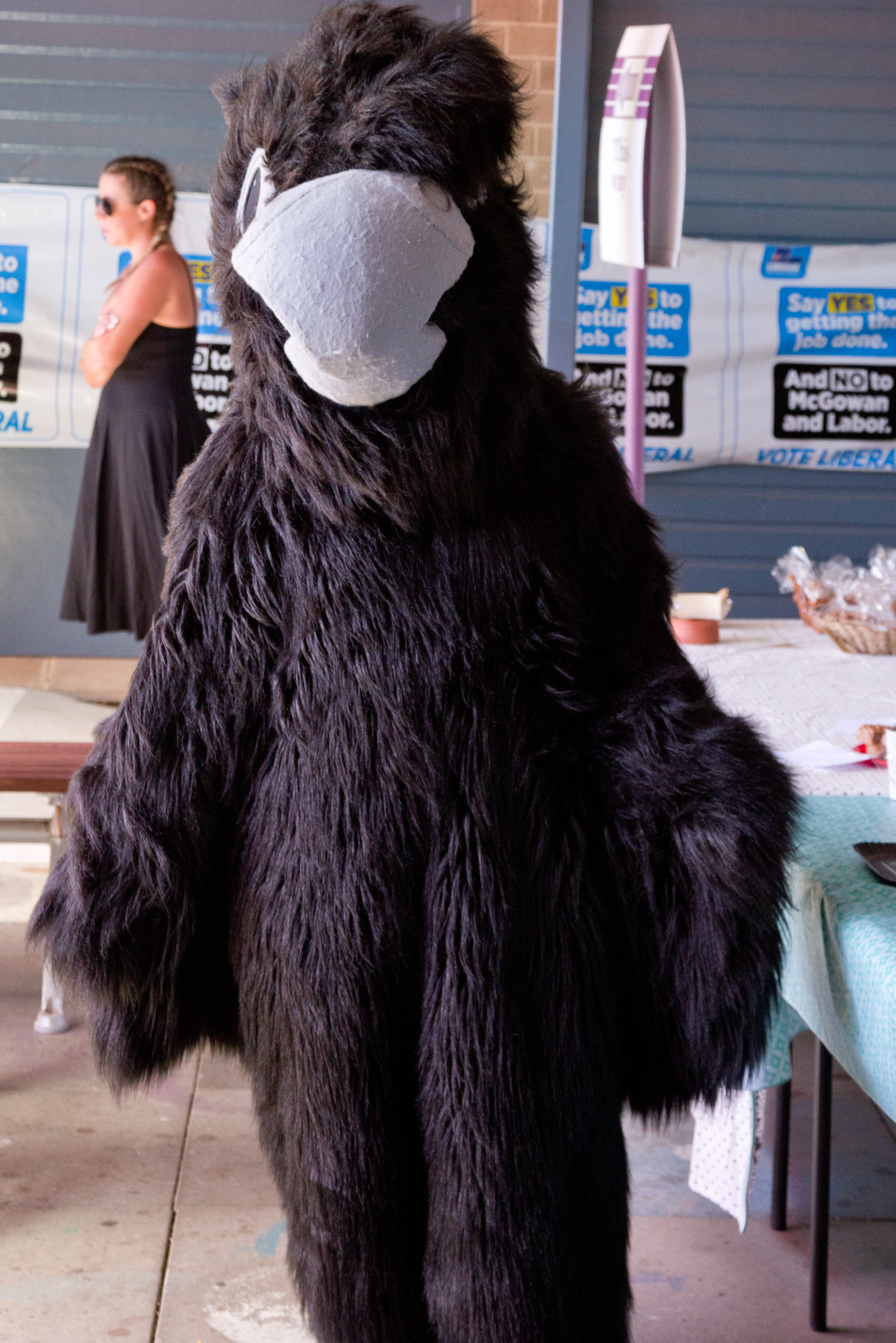 Barnaby C casting its vote in the WA 2017 State Election WA Election polling booths 2017